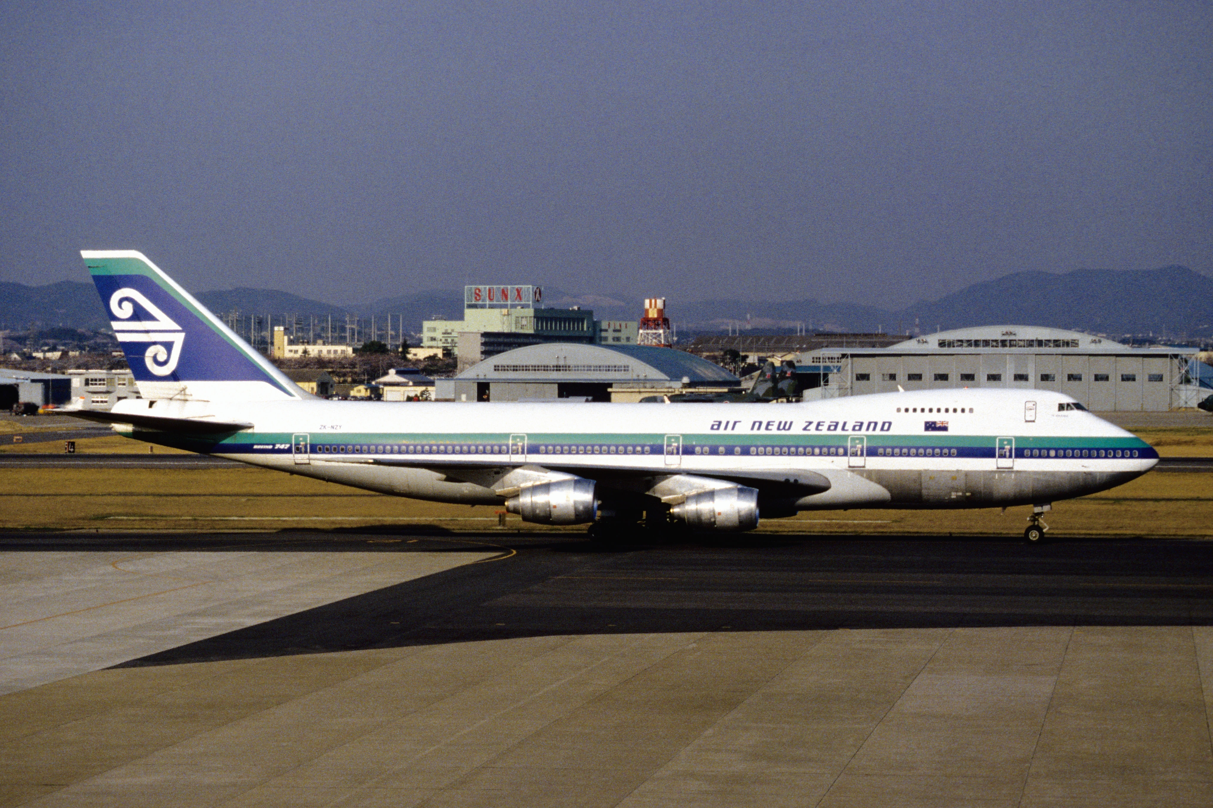 Old Pictures